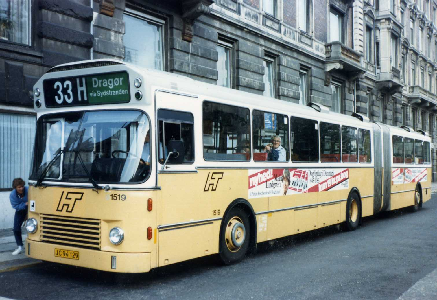 More about them on this super blog...